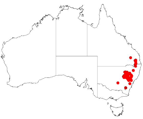 Acacia sertiformis Occurrence data from Australasia Virtual Herbarium downloaded from on 8 December 2018